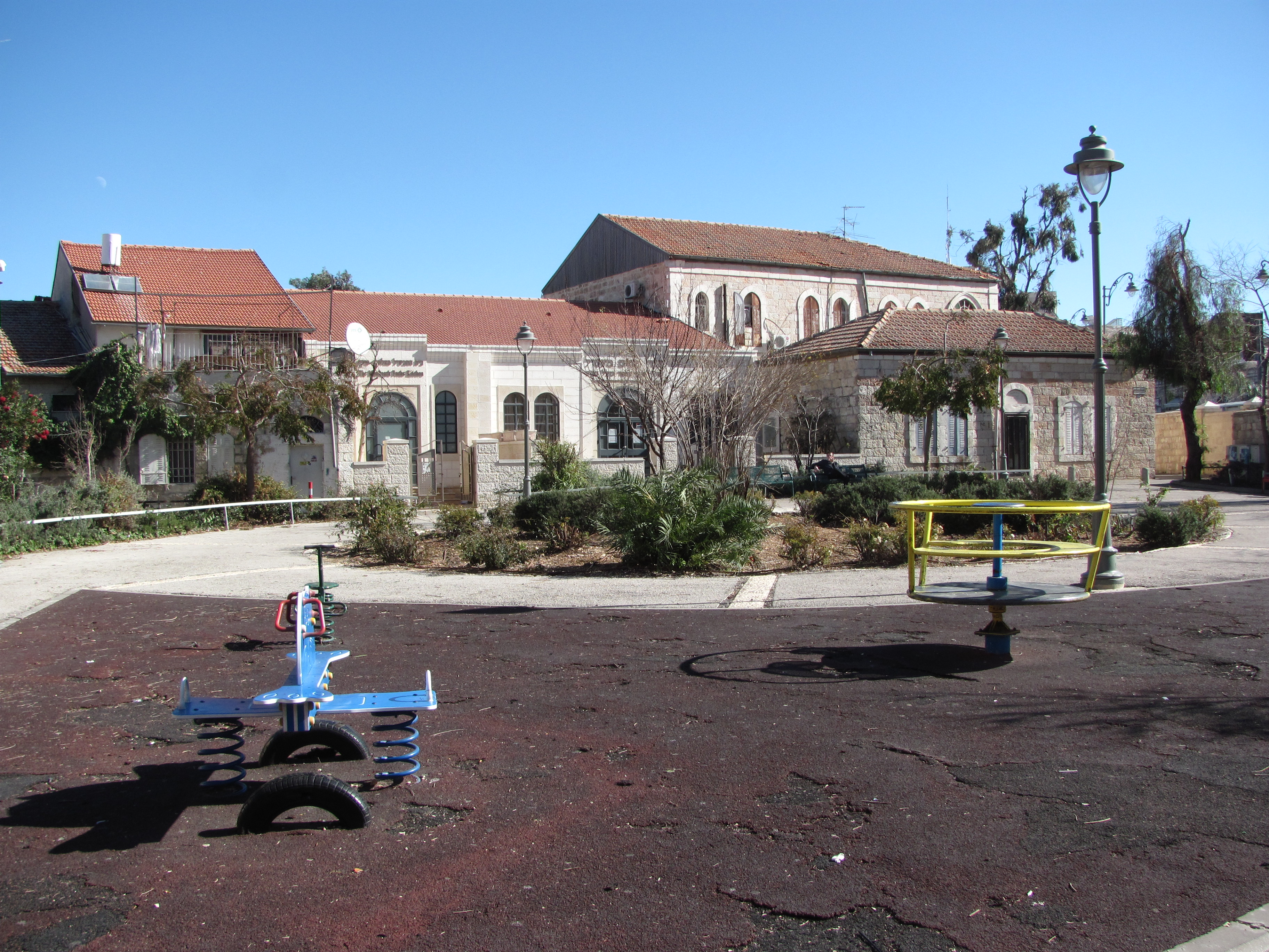 Partial view of Ohel Shlomo courtyard neighborhood in Jerusalem, Israel, with former courtyard in foreground